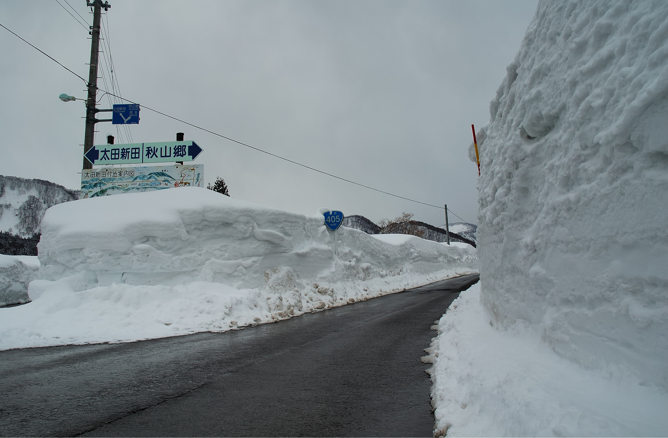 Route 405 Japan 2006 Winter (国道405号, 2006年冬. 新潟県ja:津南町内にて)